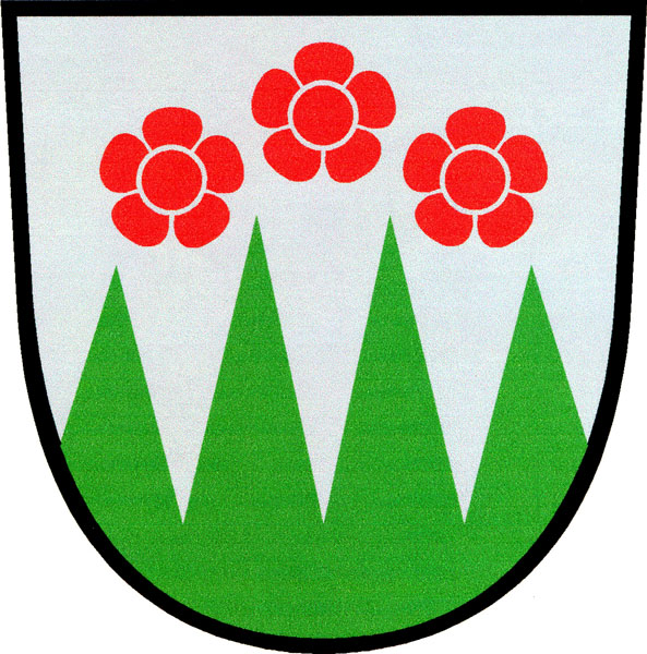 Municipal coat of arms of Nová Ves village, Český Krumlov District, Czech Republic.